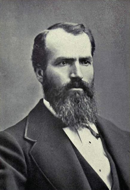 Portrait of Nathaniel P. Langford from THE VIGILANTE, THE EXPLORER, THE EXPOUNDER AND FIRST SUPERINTENDENT OF THE YELLOWSTONE PARK. BY OLIN D. WHEELER. (1912) From the text of an presentation given by Wheeler to the Montana Historical Society. Date of portrait is thought to be 1870.